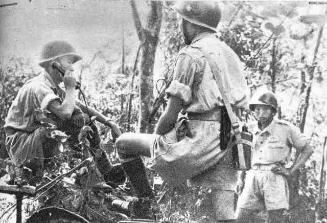 FRONT-LINE OFFICER REPORTING THE WAR SITUATION THROUGH RADIO TO THE COMMAND POST